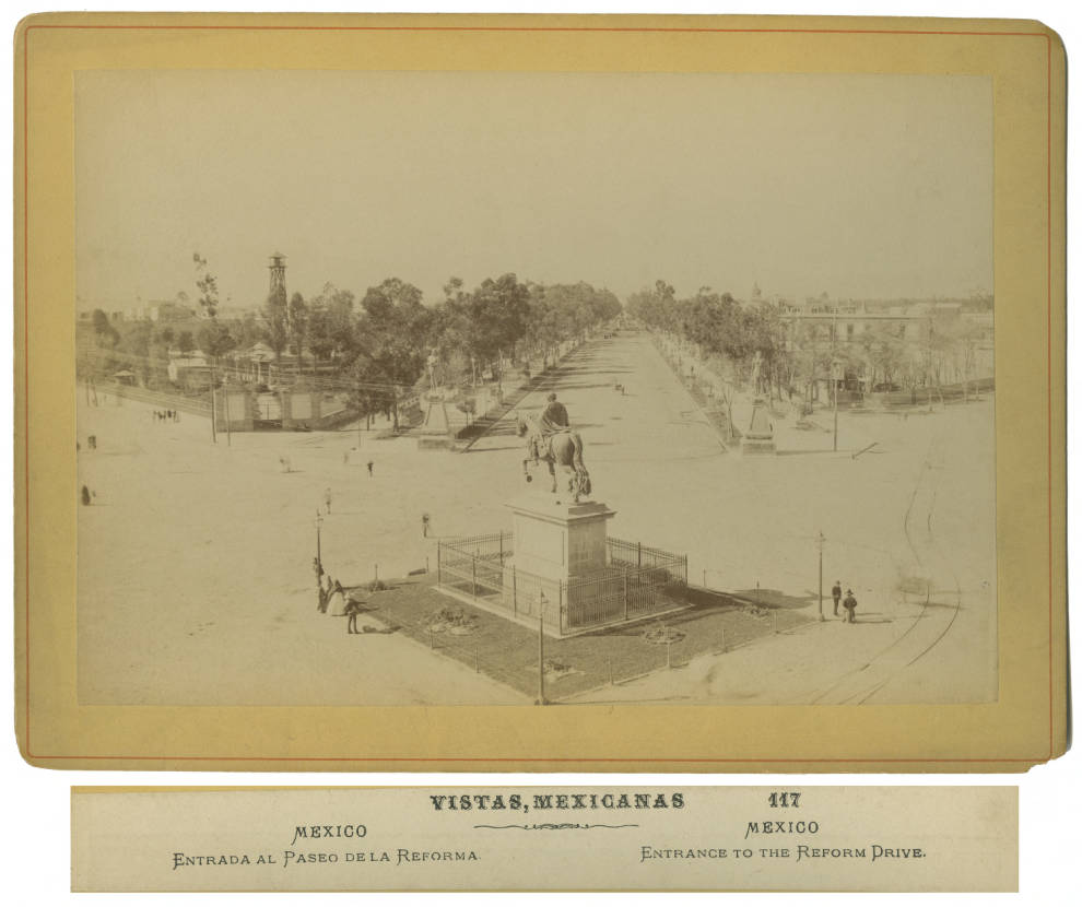 Title: Mexico, Entrada al Paseo de la Reforma. Alternative Title: Mexico, Entrance to the Reform Drive. Creator: Briquet, Abel Date: ca. 1885-1899 Part Of: Views in Mexico Place: Mexico City (Mexico D.F.), Mexico Description: The Equestrian Statue of Charles IV of Spain at the Intersection of Paseo de la Reforma and Avenida Bucareli. Physical Description: 1 photographic print on boudoir card mount: albumen; 13 x 19 cm on 16 x 22 cm mount File: ag1985_0372_117c_entrada.jpg Rights: Please cite DeGolyer Library, Southern Methodist University when using this file. A high-resolution version of this file may be obtained for a fee. For details see the web page. For other information, . For more information and to view the image in high resolution, see: View the Mexico: Photographs, Manuscripts, and Imprints